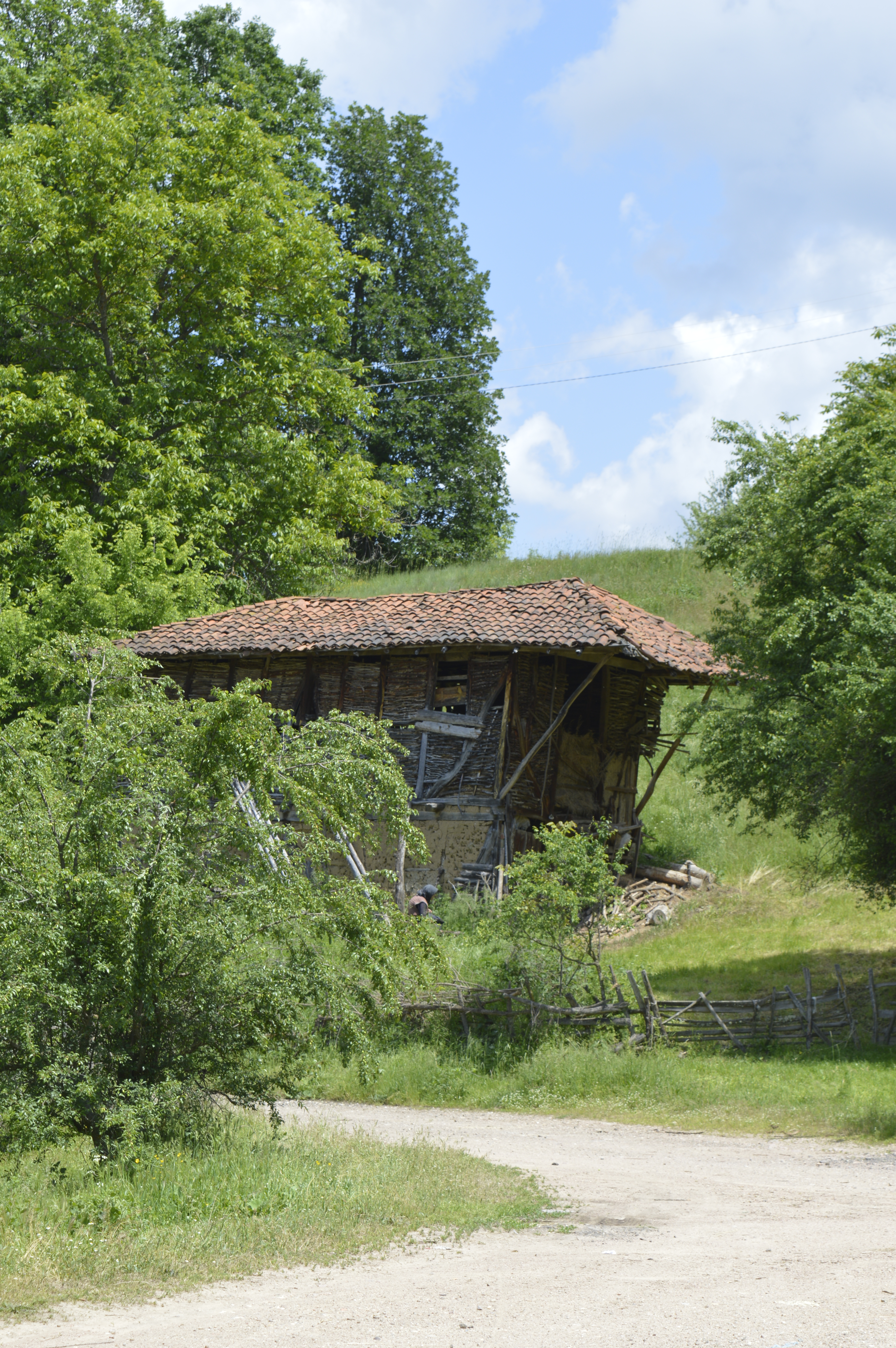 Barn in the village Nov Istevnik